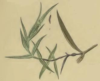 Stainton’s Natural History of the Tineina (1855–1873): Caryocolum tricolorella a sprig of Stellaria holostea with a young shoot attacked by larva